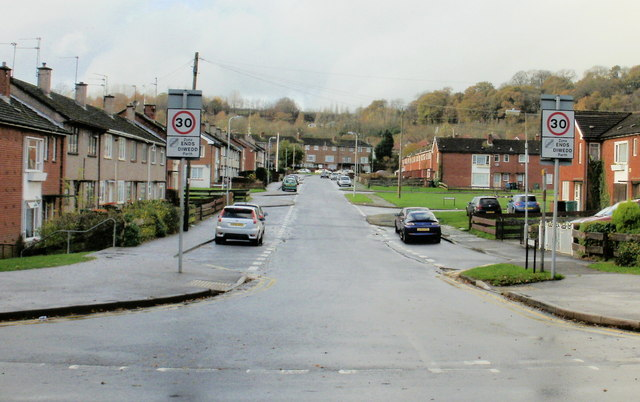 Howe Circle, Ringland, Newport At first glance, it's strange that this straight road heading away from Beatty Road is named 'Circle'. Near the houses at the top of the photo, the road bends sharply to the southeast and eventually rejoins Beatty Road near the Ringland Way junction. Geometers probably have a word to describe the irregular shape formed by the road, but to the street naming department, 'circle' was close enough.